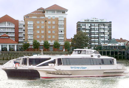 Thames in front of New Caledonian Wharf and Customs House Reach, taken August 2005